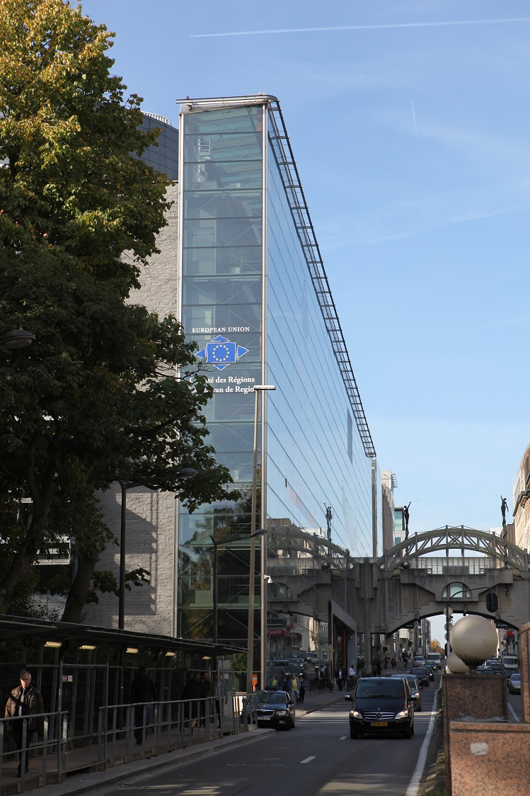 Committee of the Regions' Jaques Delors Building in Brussels, Belgium